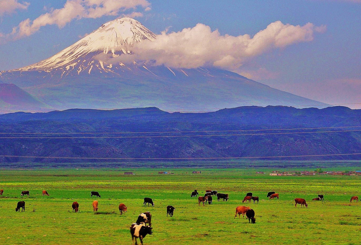 A view of Little Ararat from Dogubeyazit